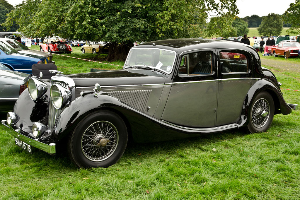 1947 Jaguar 2½ litre (DVLA) First registered Arley Hall Classic Car Show 23 September 2012